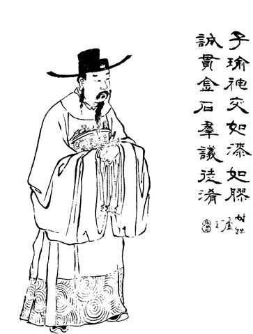 Qing dynasty portrait of Zhuge Jin